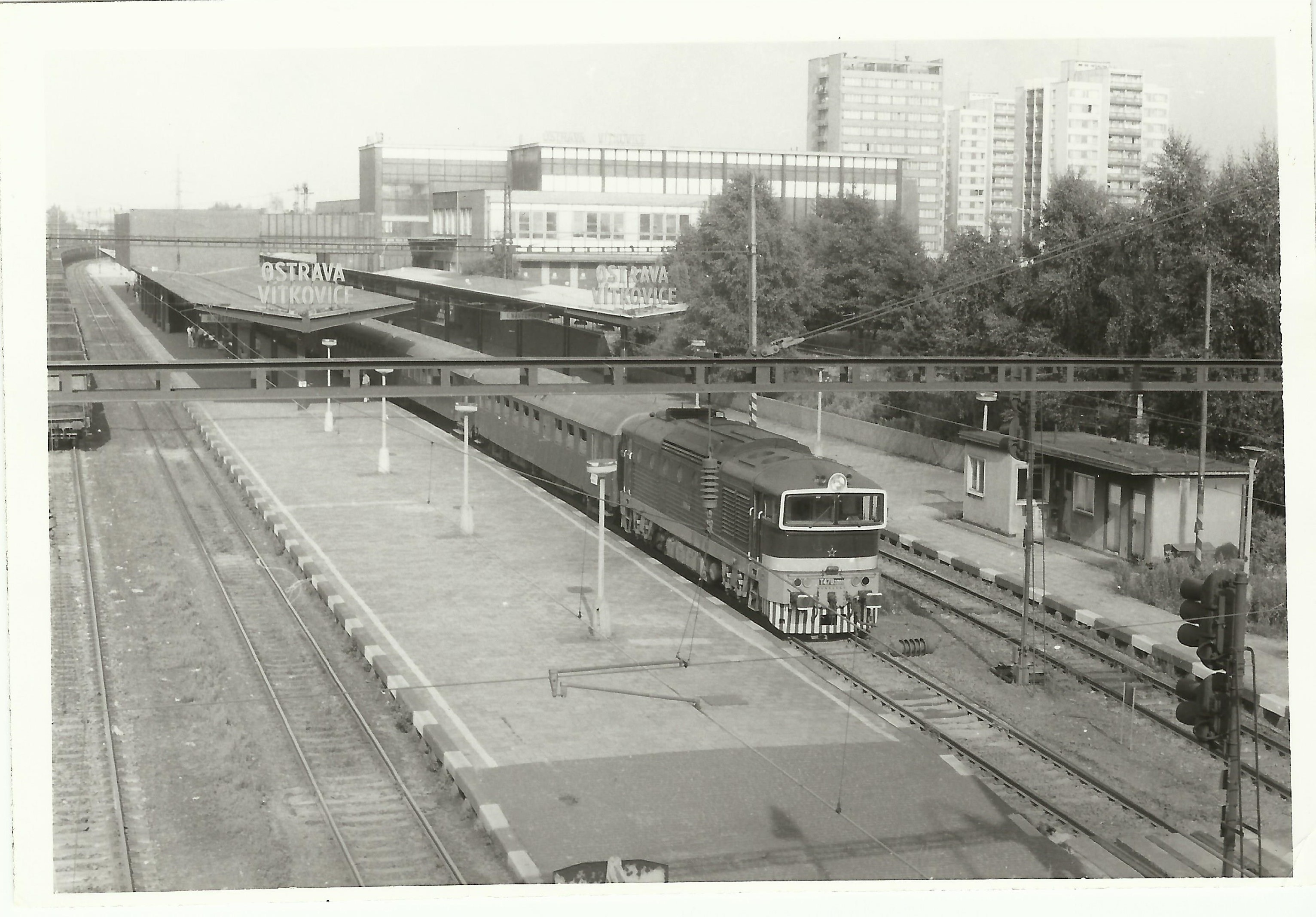 T 478 3288, Ostrava-Vítkovice 8. 1986 (Czechoslovakia).